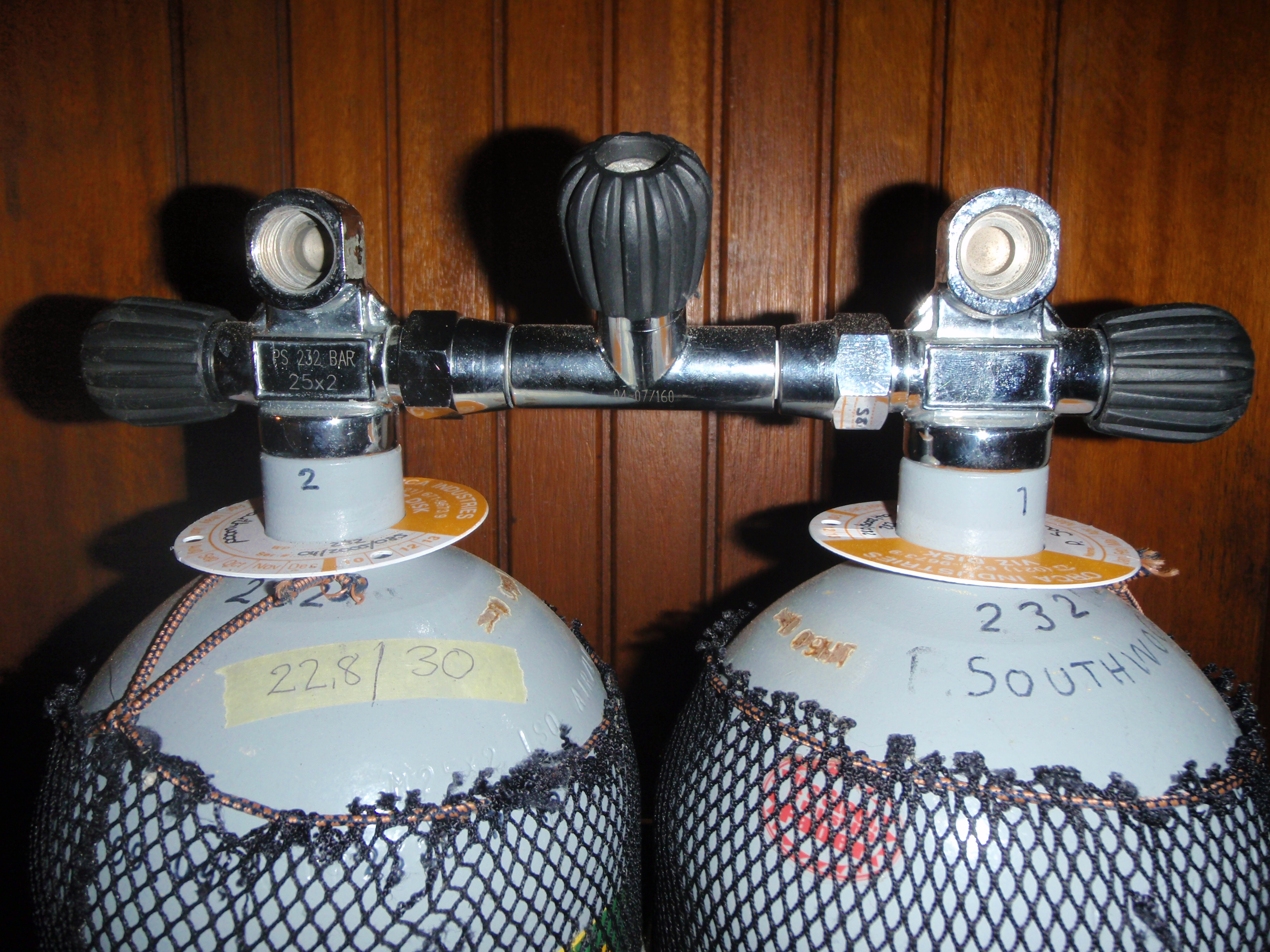 Twinned 12l steel cylinders connected by a face-sealed isolation manifold. The plastic discs are a record of the latest internal inspection.